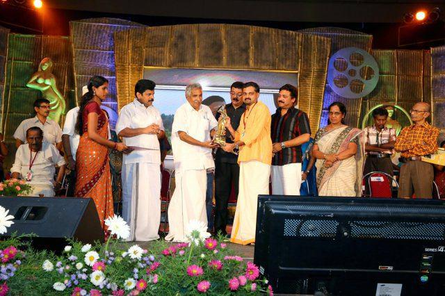 Bjibal in Kerala State Film Award 2013 function receiving award from Chief Minister Umman Chandy